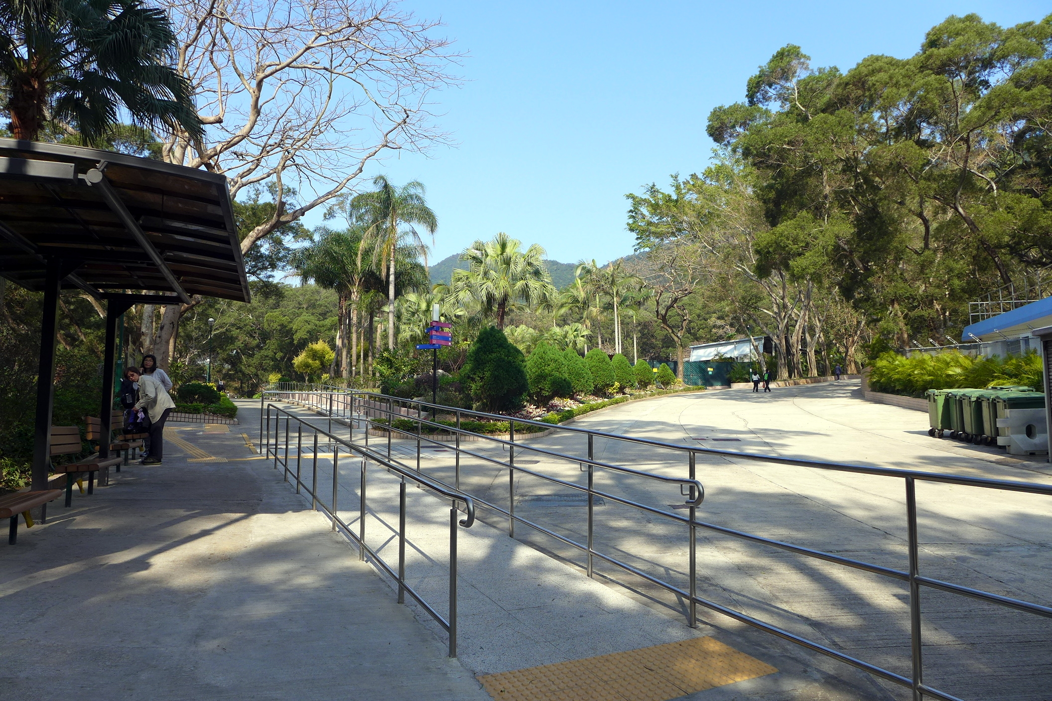 Lion Rock Park